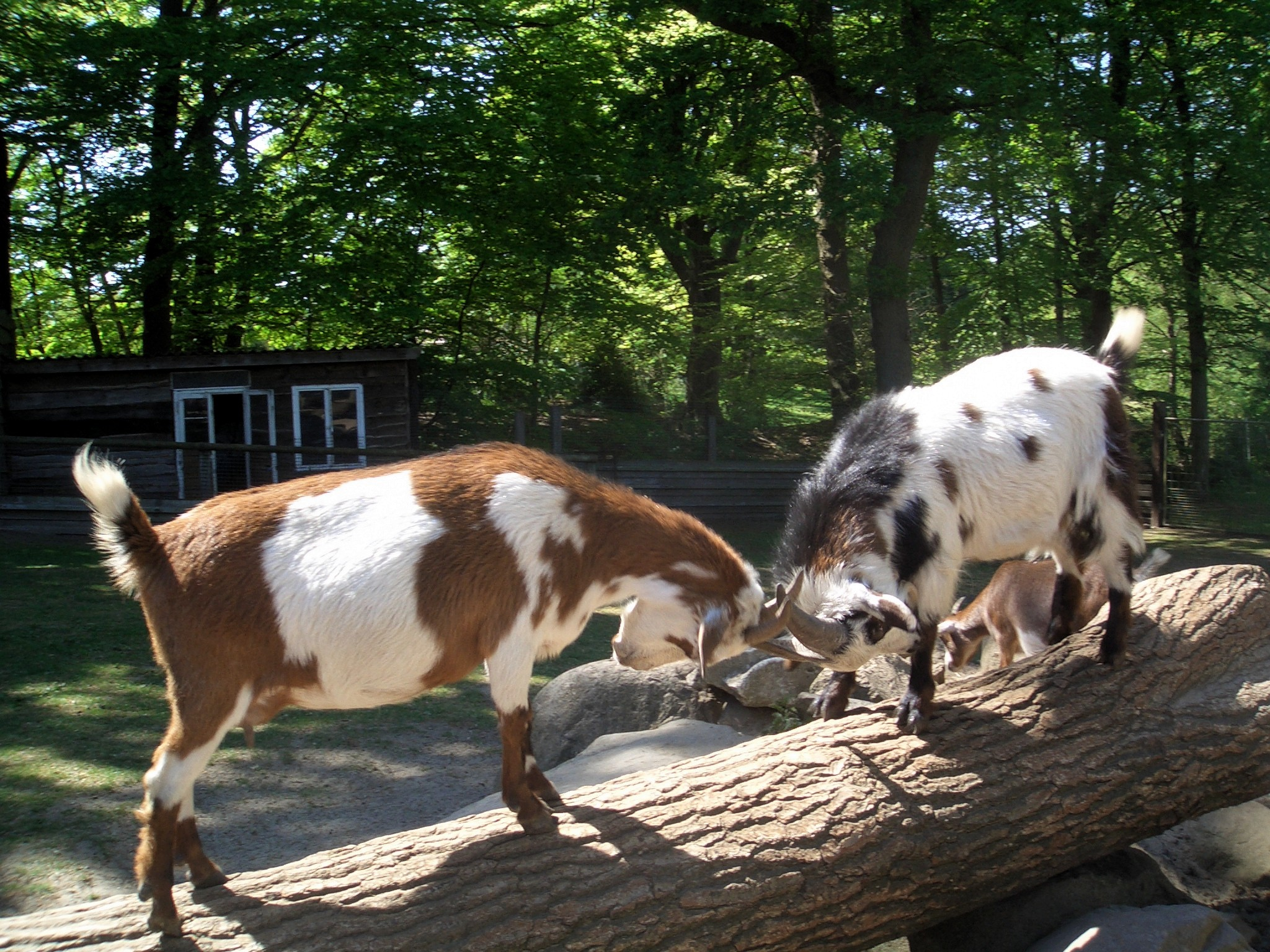 Goats butting heads.